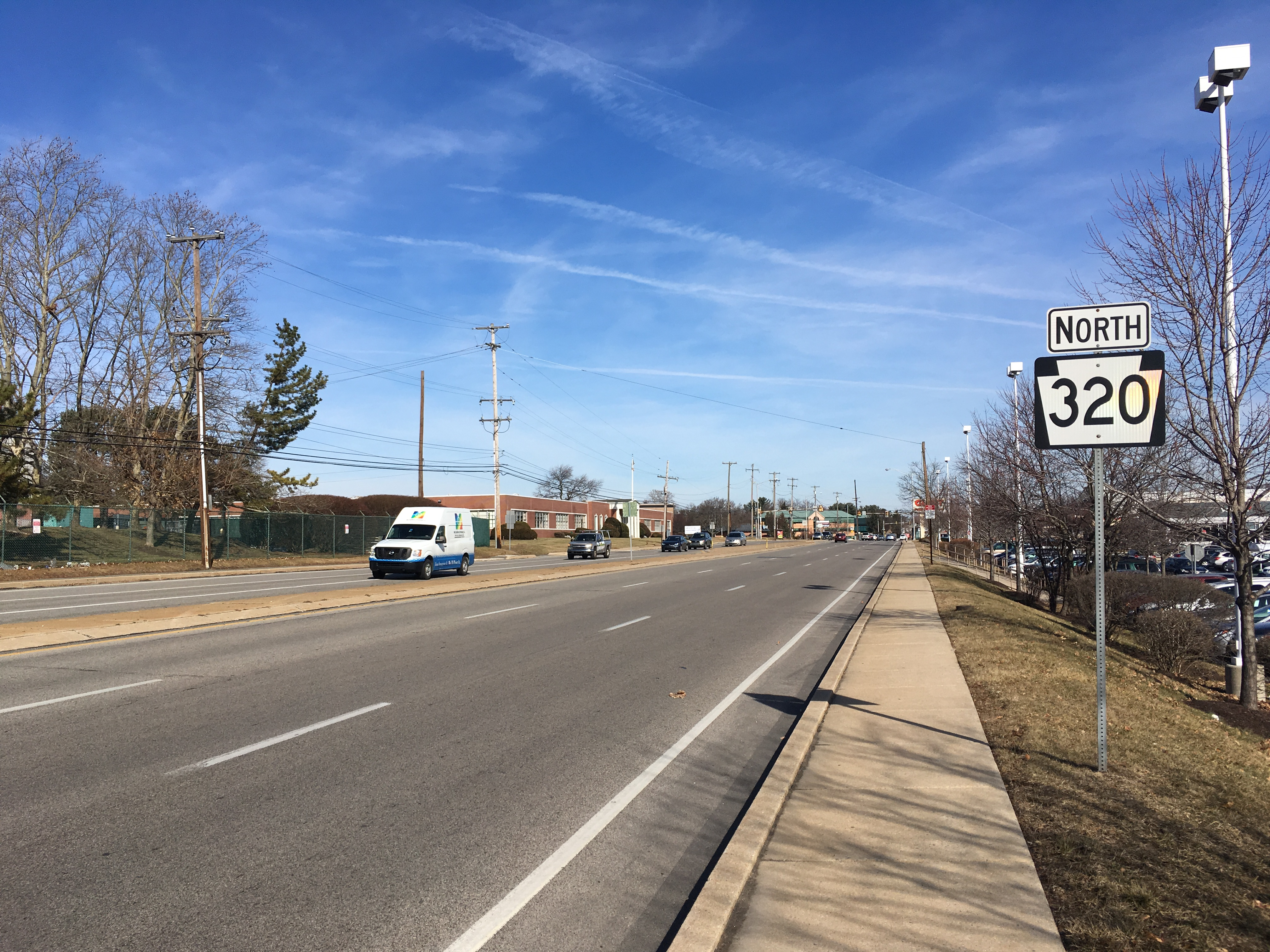 Northbound Pennsylvania Route 320 (Sproul Road) past the intersection with Pennsylvania Route 420 (Woodland Avenue) in Springfield, Pennsylvania